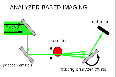 Drawing of Analyzer-based imaging (Phase-contrast X-ray imaging technique).